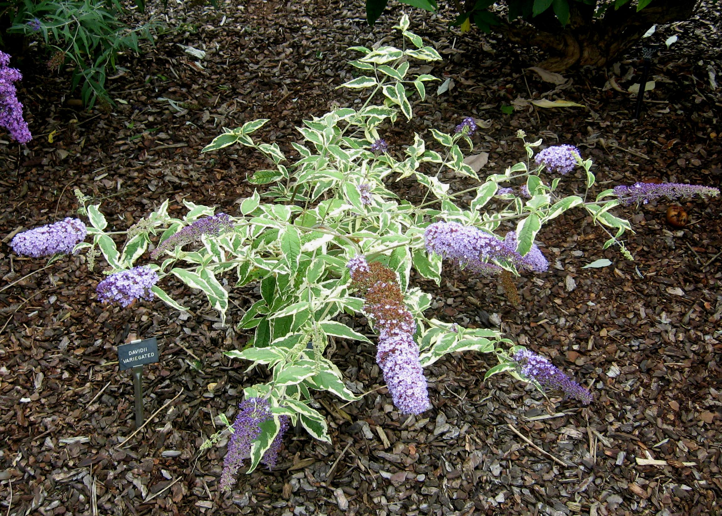 Photo of Buddleja cultivar taken at Longstock Park Nursery, UK, NCCPG national collection holder